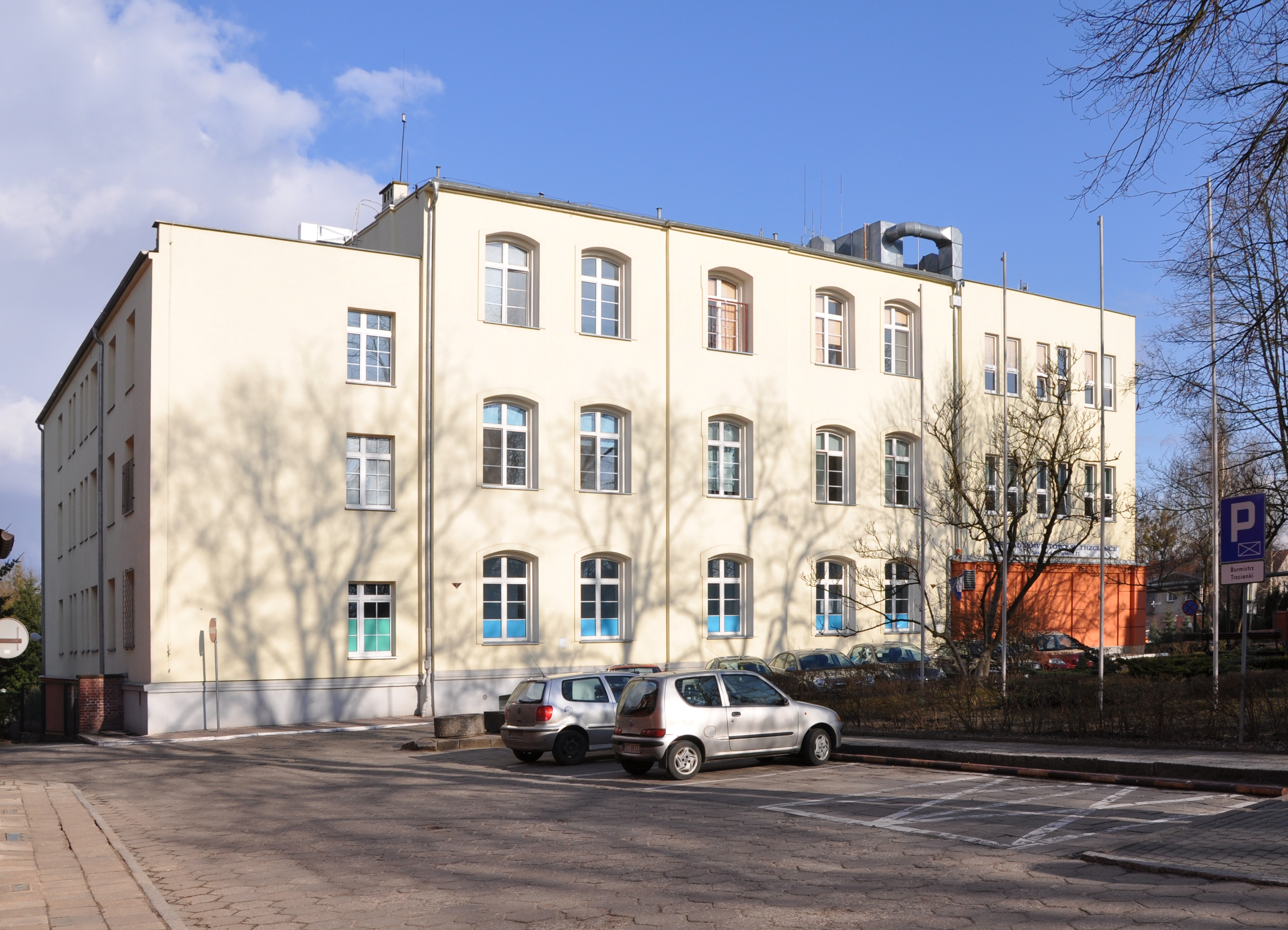 County Hospital of John Paul II in Trzcianka, Poland